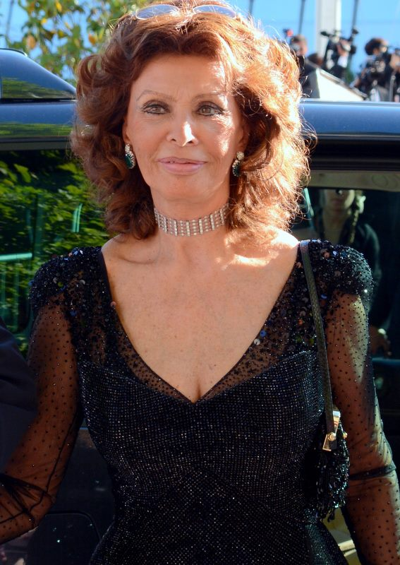 Sophia Loren at the Cannes Film Festival